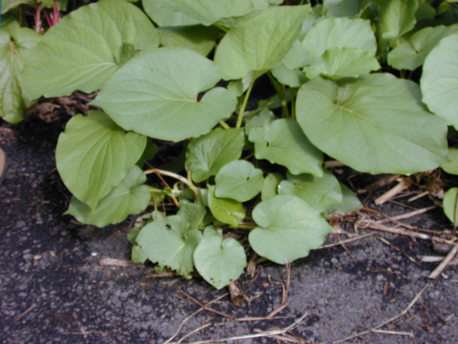 Piper auritum (habit). Location: Maui, Nahiku